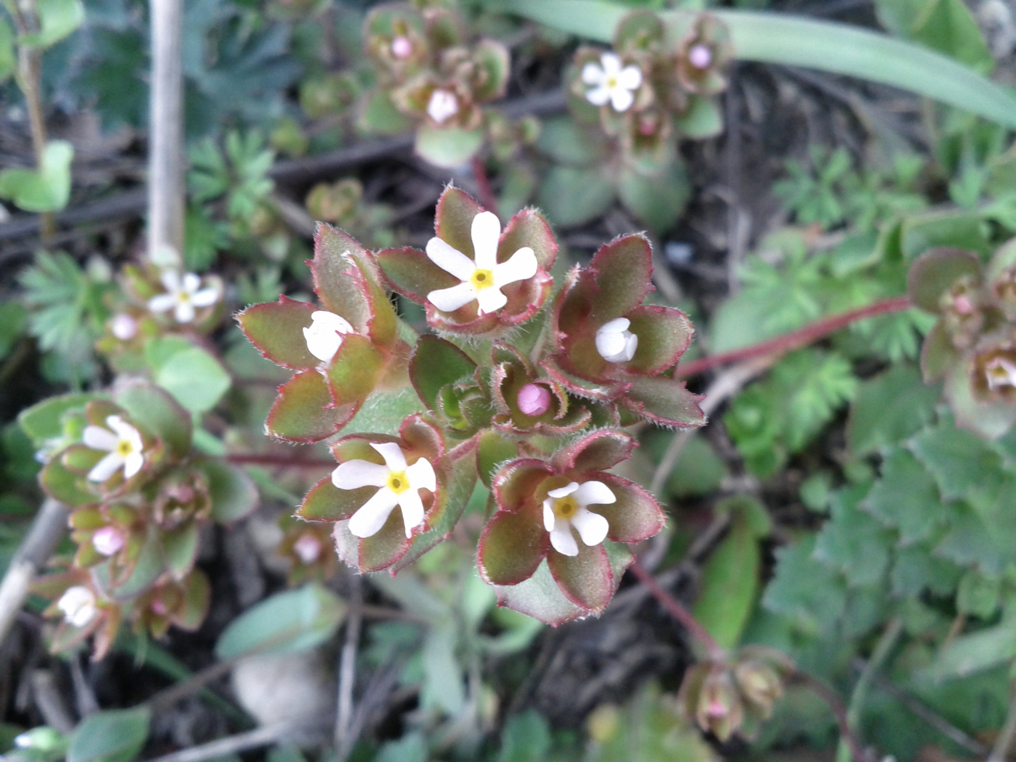 Inflorescence Taxonym: Androsace maxima ss Fischer et al. EfÖLS 2008 ISBN 978-3-85474-187-9 Location: Sinawastingasse, Vienna-Floridsdorf - ca. 160 m a.s.l. Habitat: highway slope